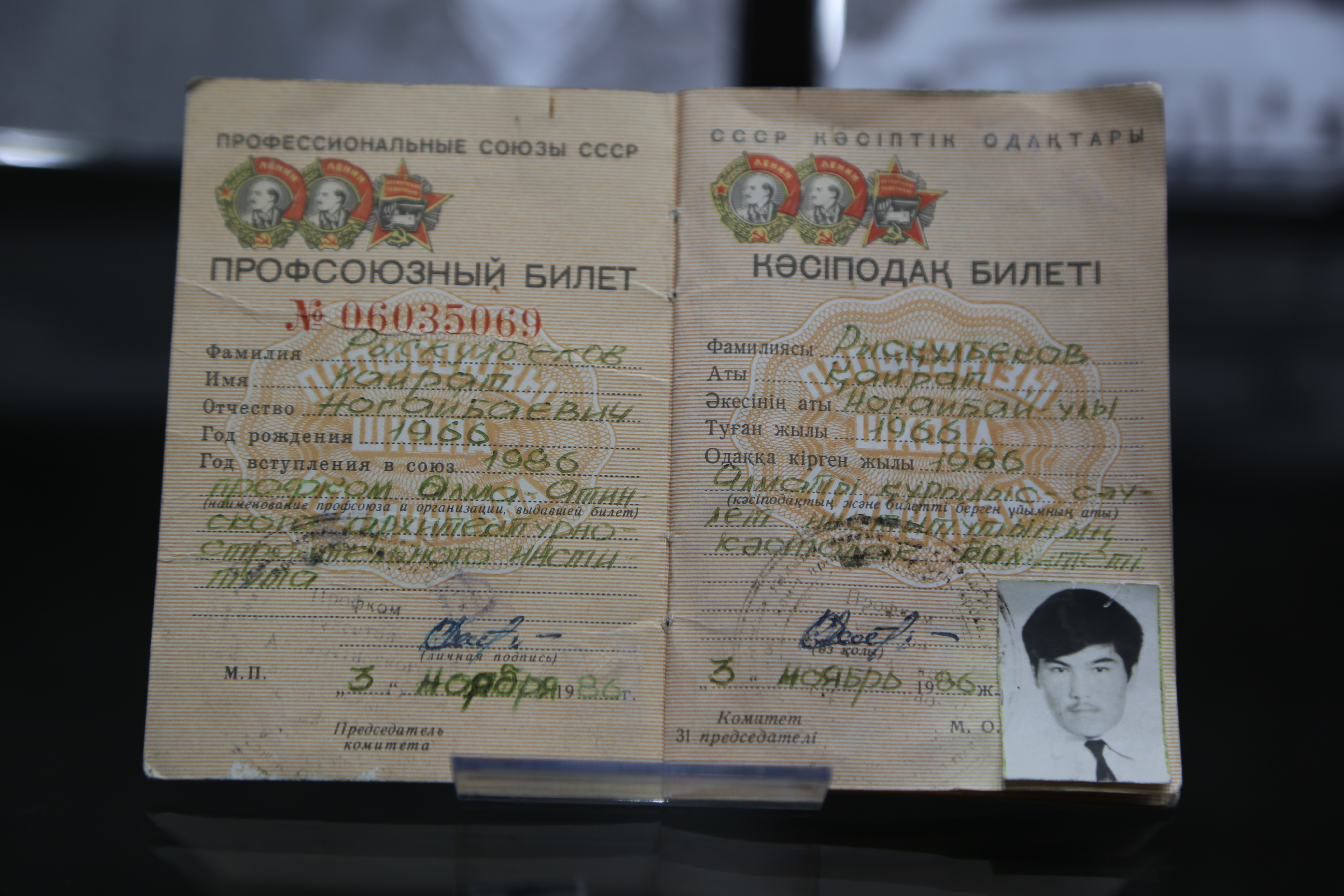 Kairat Ryskulbekov Trade Union Membership Card, 1986 (Almaty Museum)